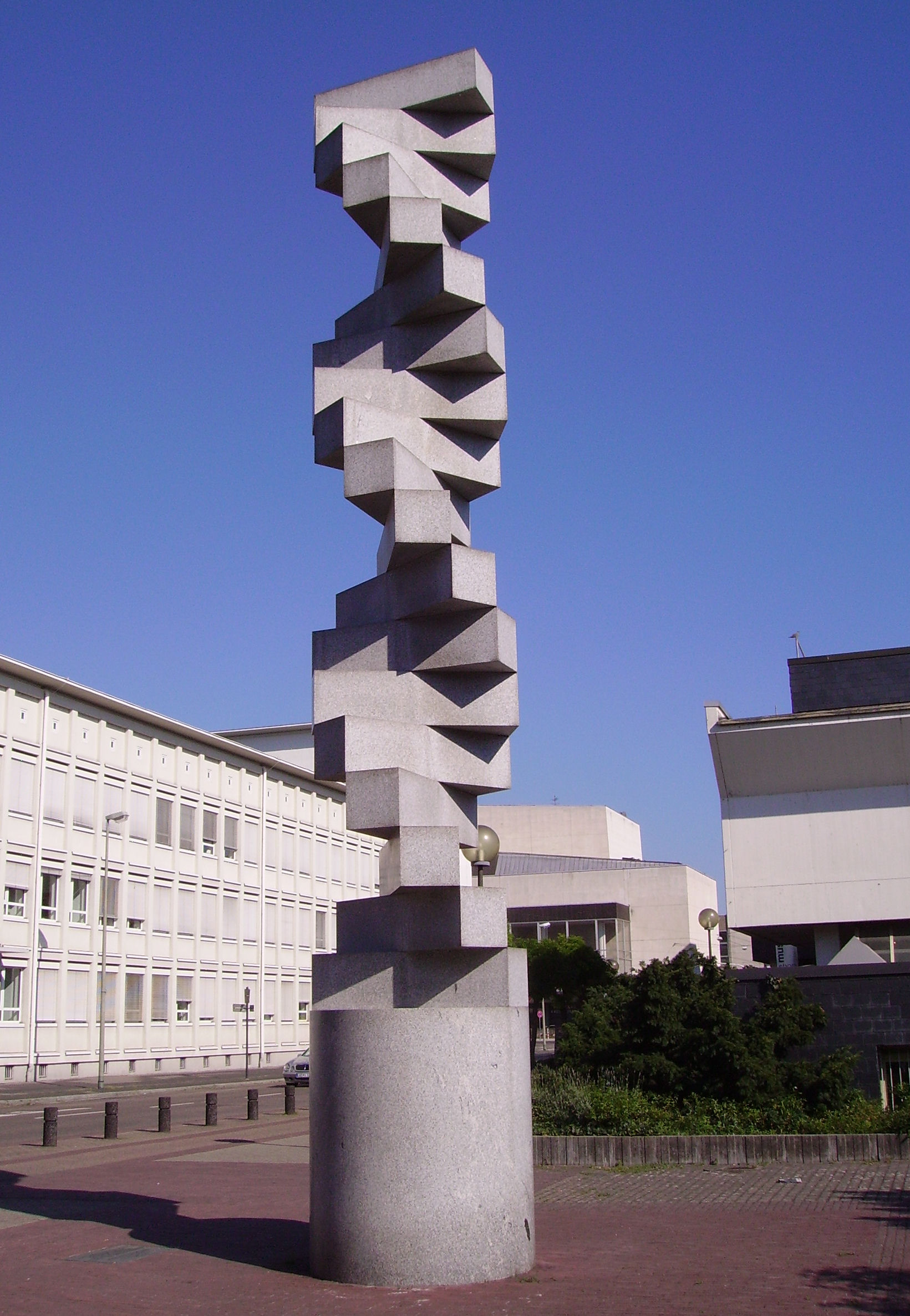 Endlose Treppe (1991) by Max Bill in Ludwigshafen, Germany